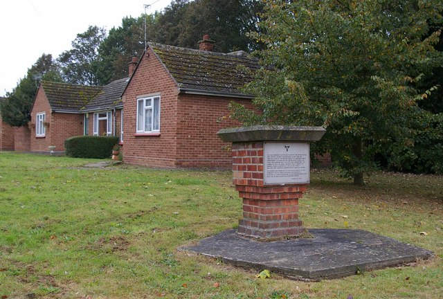 This US memorial to those who served at Andrews Field airfield in WW2. It is on the green in Victoria Close, Great Saling. See also File:USAAF memorial plaque Andrewsfield .uk 577252 a4d4bc11-by-Glyn-Baker.jpg